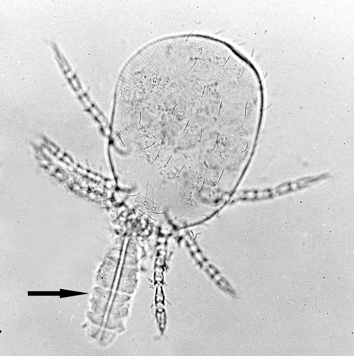 Trombicula mite. Bloodfeeding larval stage with stylostome, or secreted feeding tube.